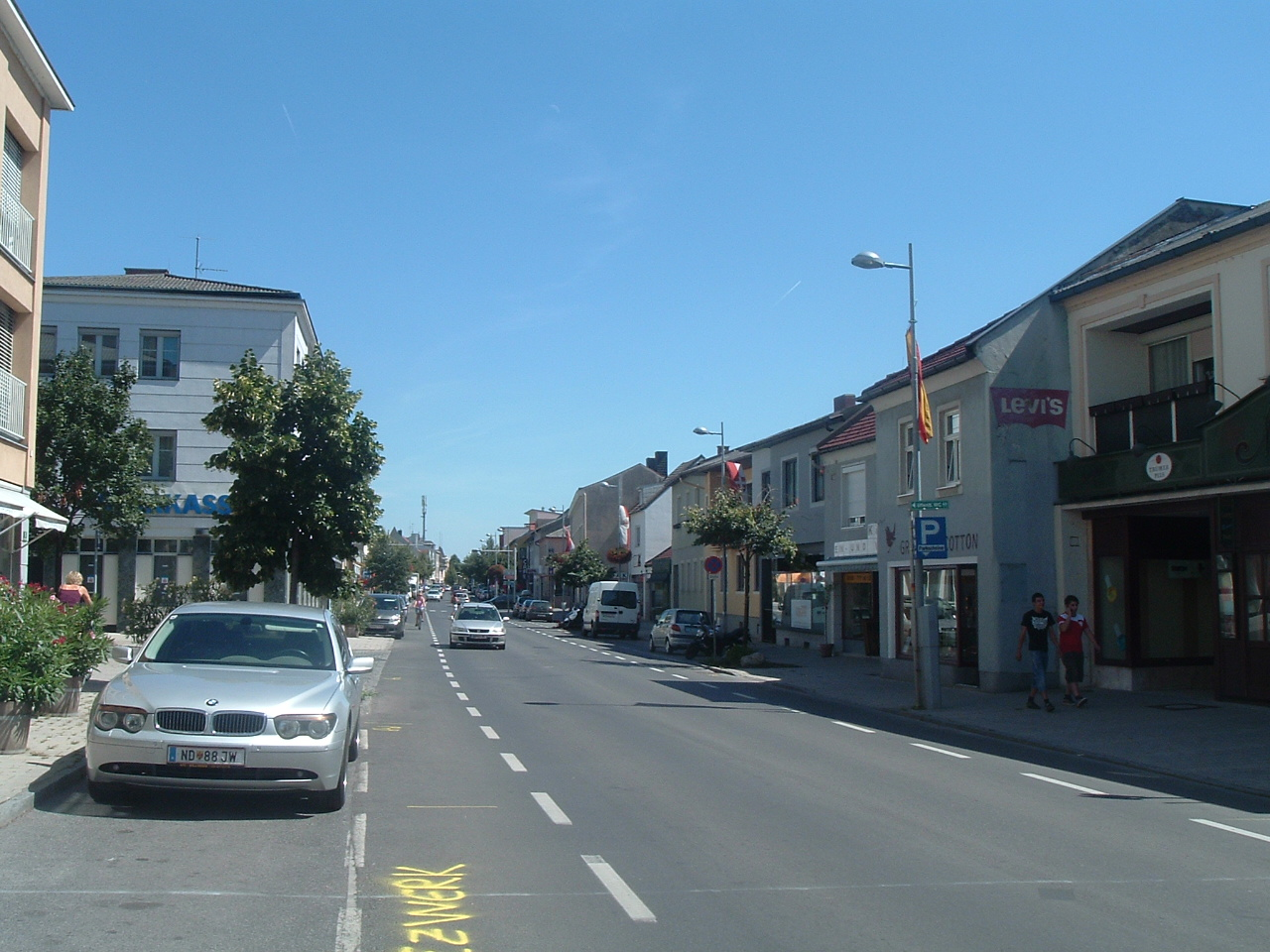 Neusiedl am See, Austria